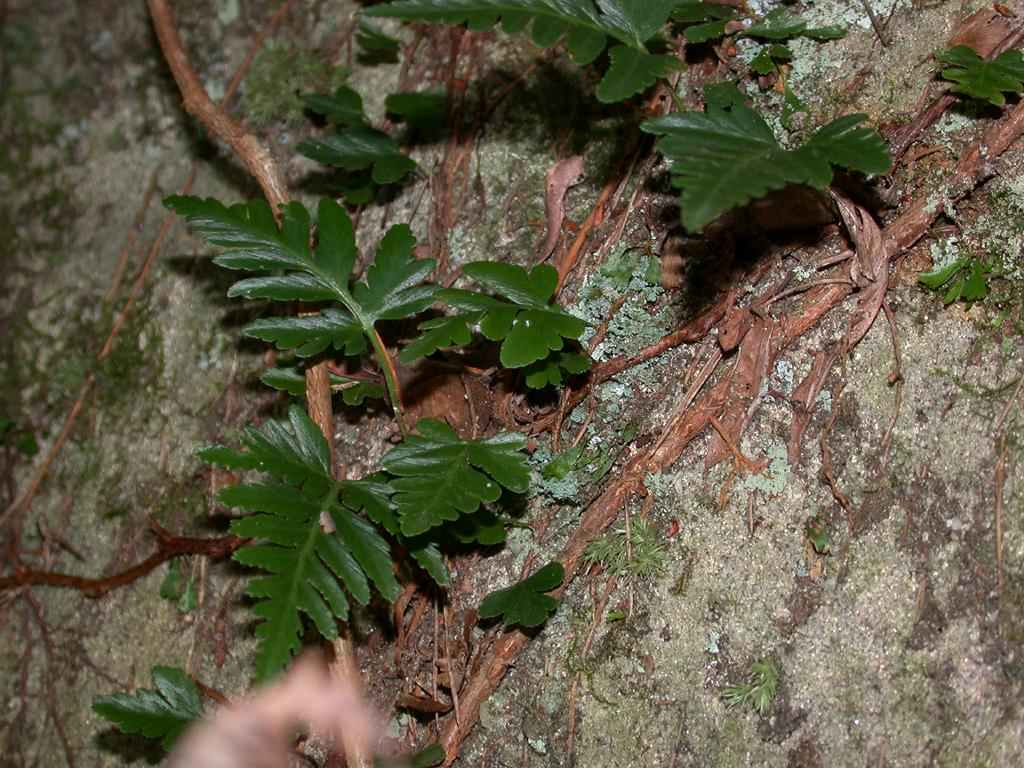 Species Davallia repens (syn. Pachypleuria repens) Japanese name:Kikusinobu Date;2007,11;01: Wakayama prefecture, Japan Author;Keisotyo